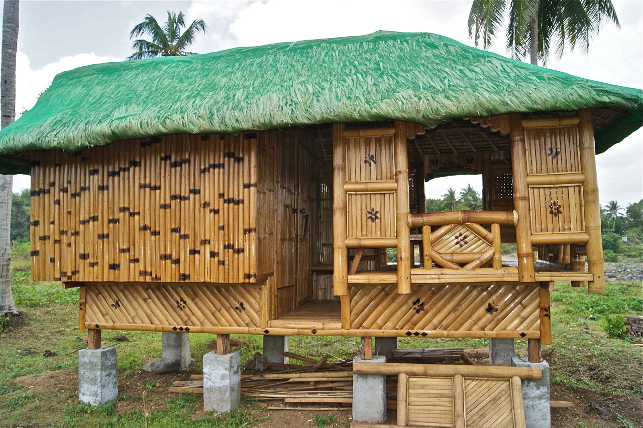 Nipa Hut, photo taken near Balanac River in Barangay Ibabang Atingay, Municipality of Magdalena, Laguna, Philippines in April 2011.